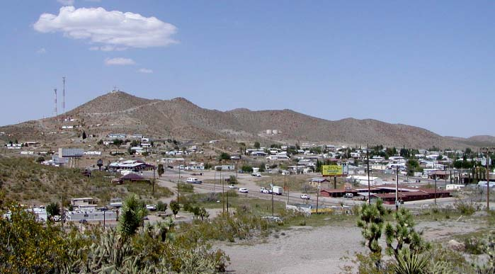 Photo of Searchlight, Nevada from the southwest